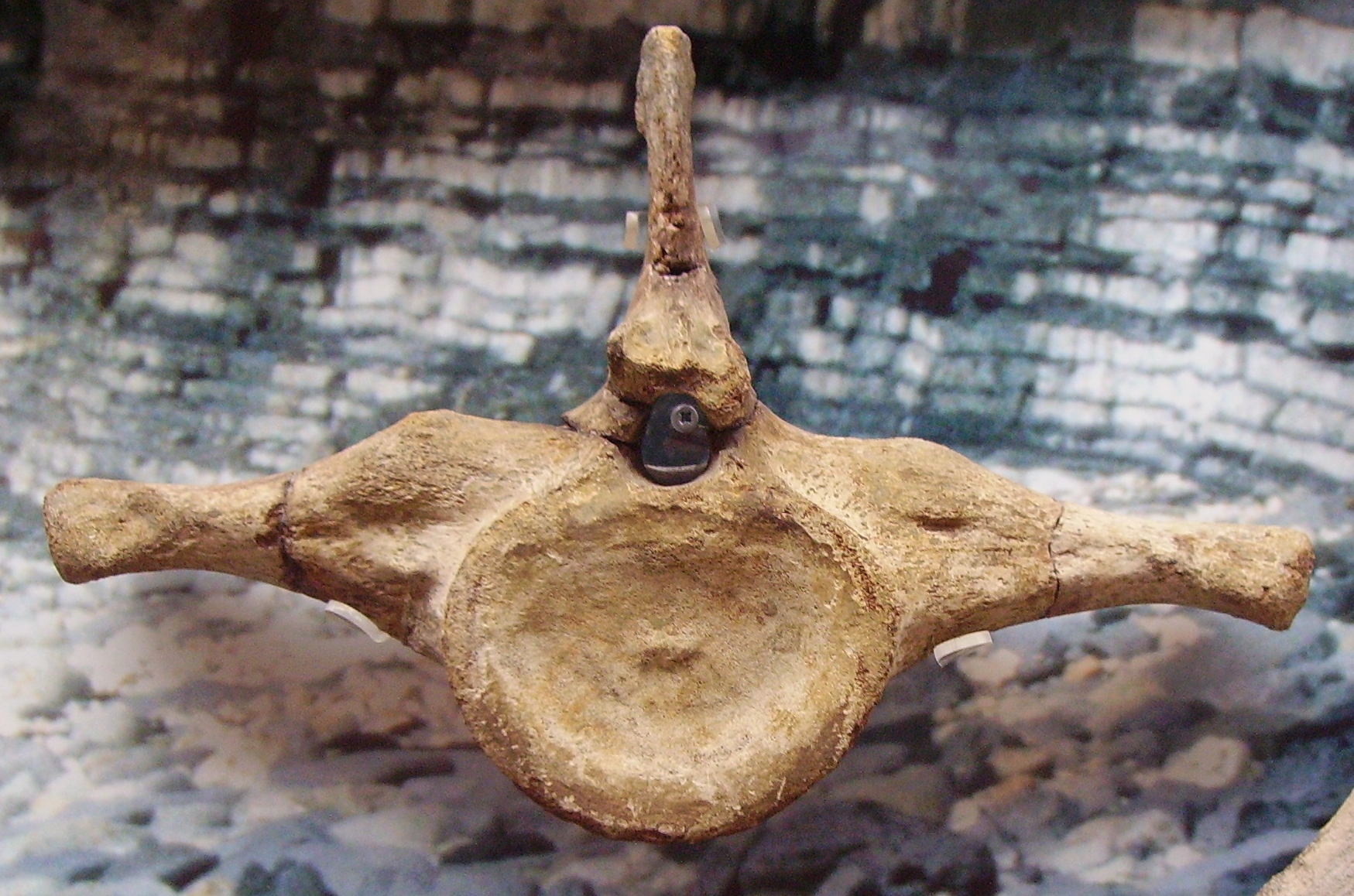 Colymbosaurus (plesiosaur) sacral vertebra